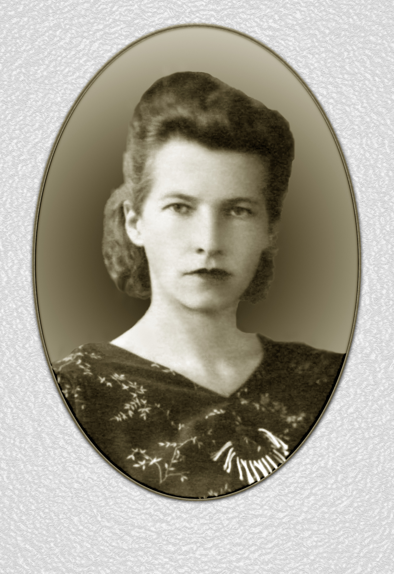 Helene_Körber